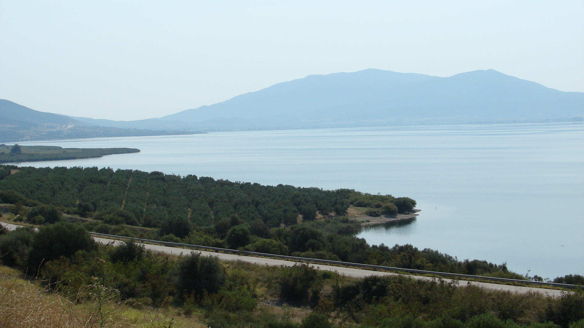 This is a photography of Natura 2000 protected area with ID GR1220001